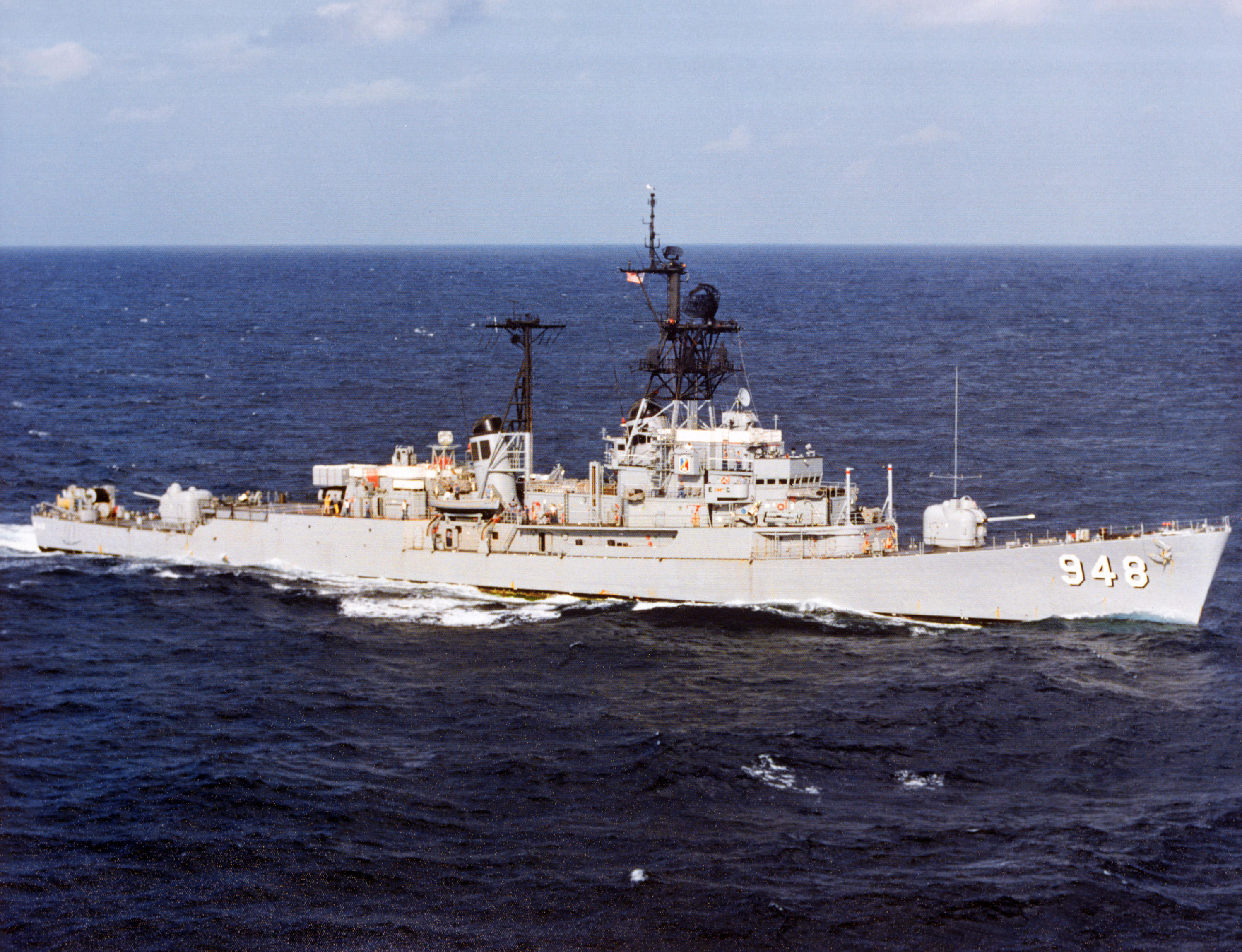 The U.S. Navy destroyer USS Morton (DD-948) underway in the Indian Ocean as part of the aircraft carrier USS Midway (CV-41) battle group, circa in the 1970s or early 1980s. Note: The date given "5 June 1983" has to be incorrect, as Morton was decommissioned on 22 November 1982 and sold for scrapping on 17 March 1992.